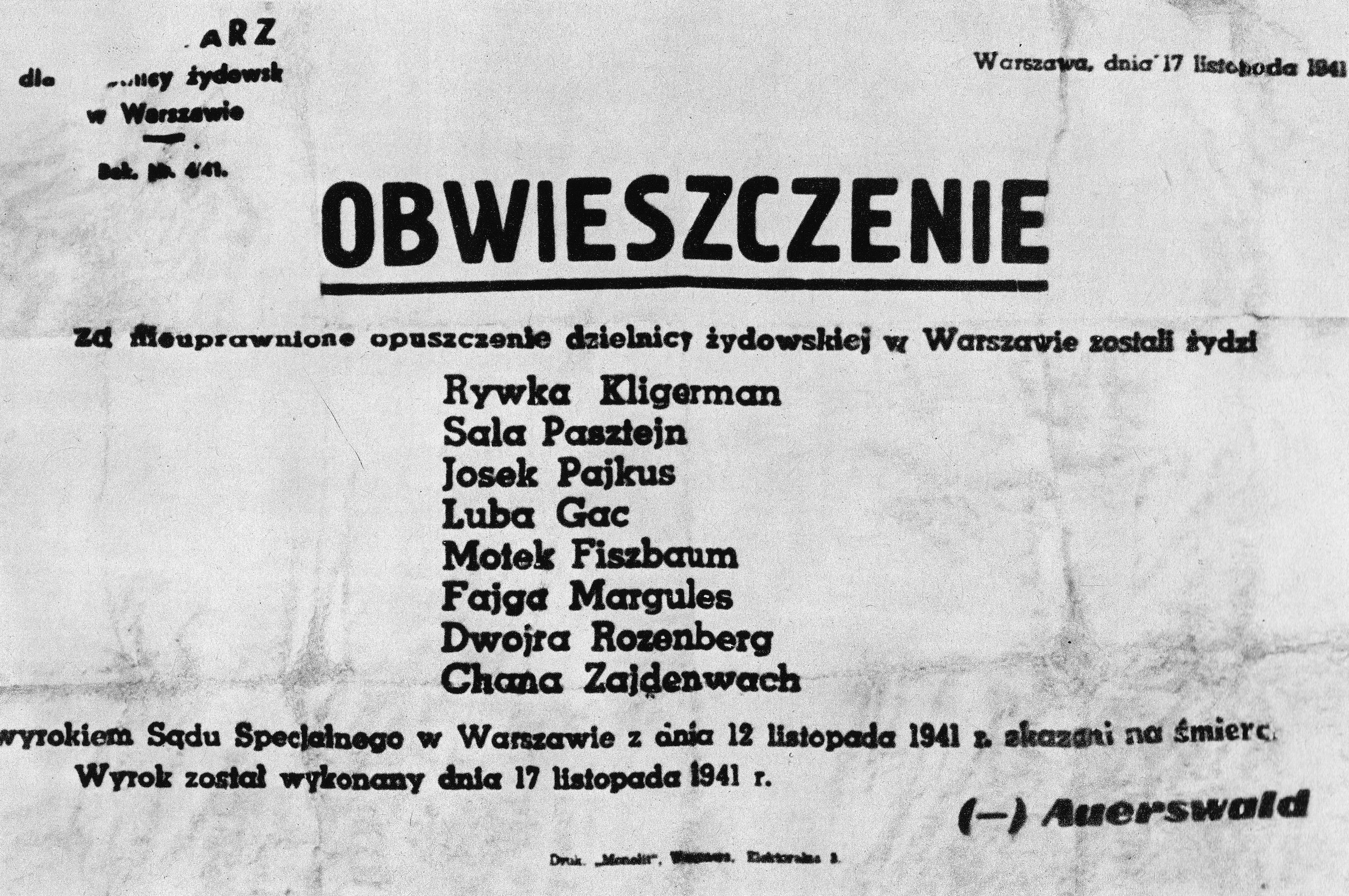 Public announcement of Heinz Auerswald about the execution of 8 Jews for illegal leaving of the Warsaw Ghetto